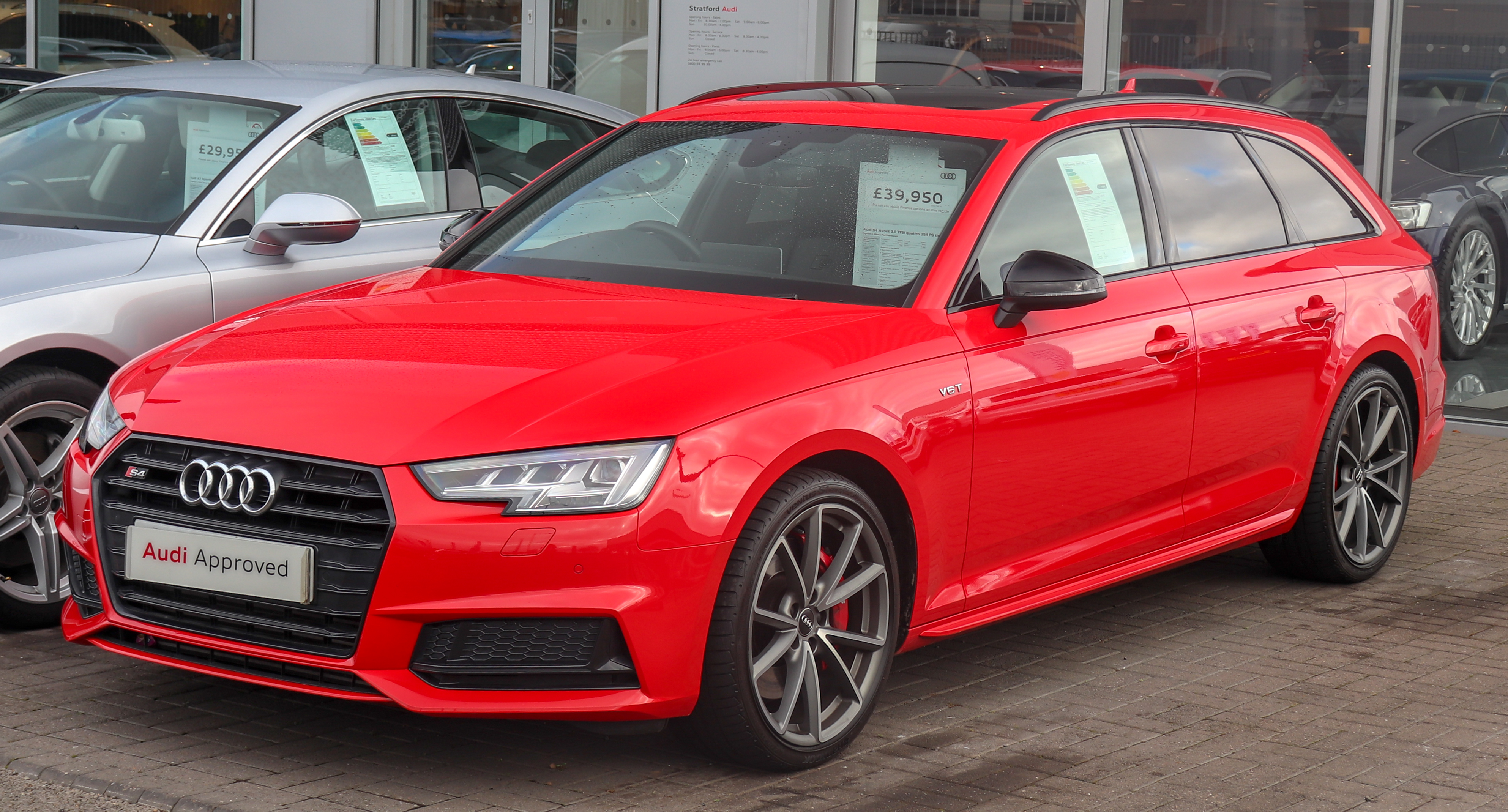 2017 Audi S4 Avant TFSi Quattro Automatic 3.0 Front Taken in Stratford-upon-Avon